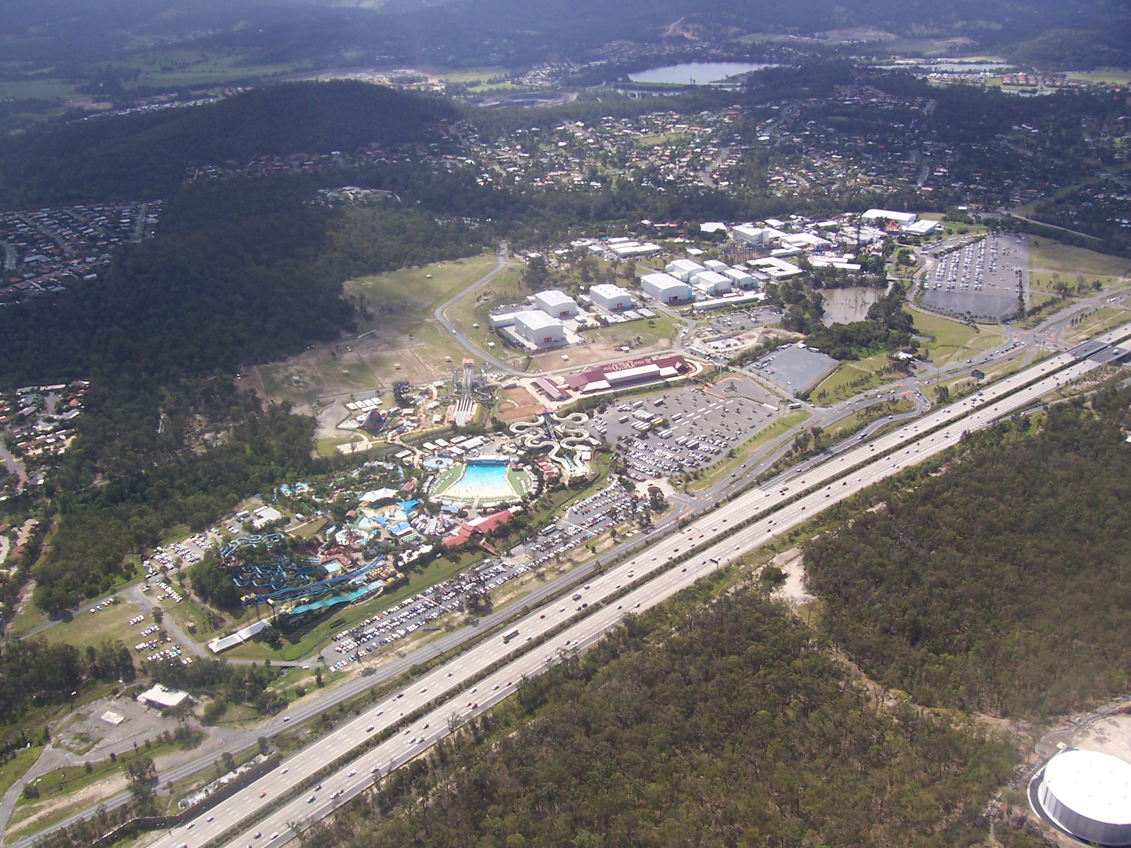 Gold Coast M1 Pacific Highway 2006